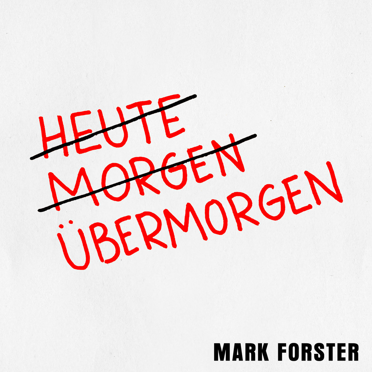 „Übermorgen“ Single-Cover by Mark Forster.